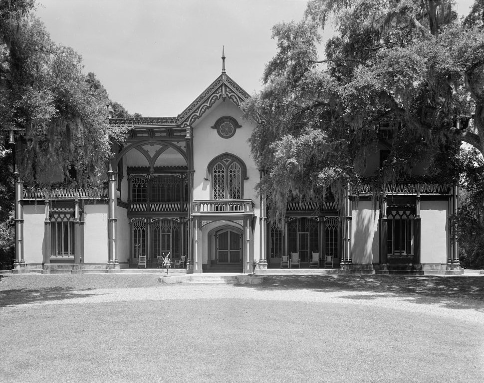 Afton Villa — St. Francisville vic., W. Feliciana Parish, Louisiana. From the Library of Congress, Carnegie Survey of the Architecture of the South.